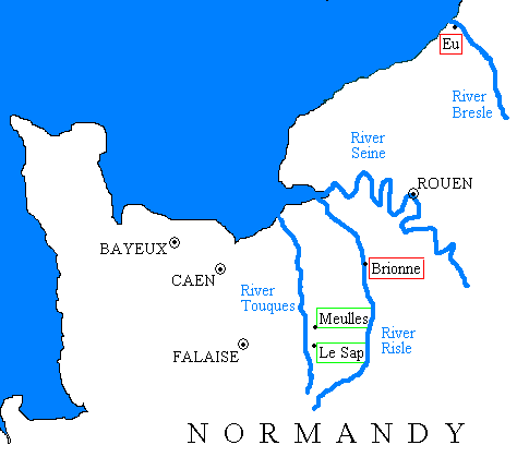 Map showing manors in Normandy associated with the origins of the Anglo-Norman magnate Baldwin de Meulles (d.1090), Sheriff of Devon.